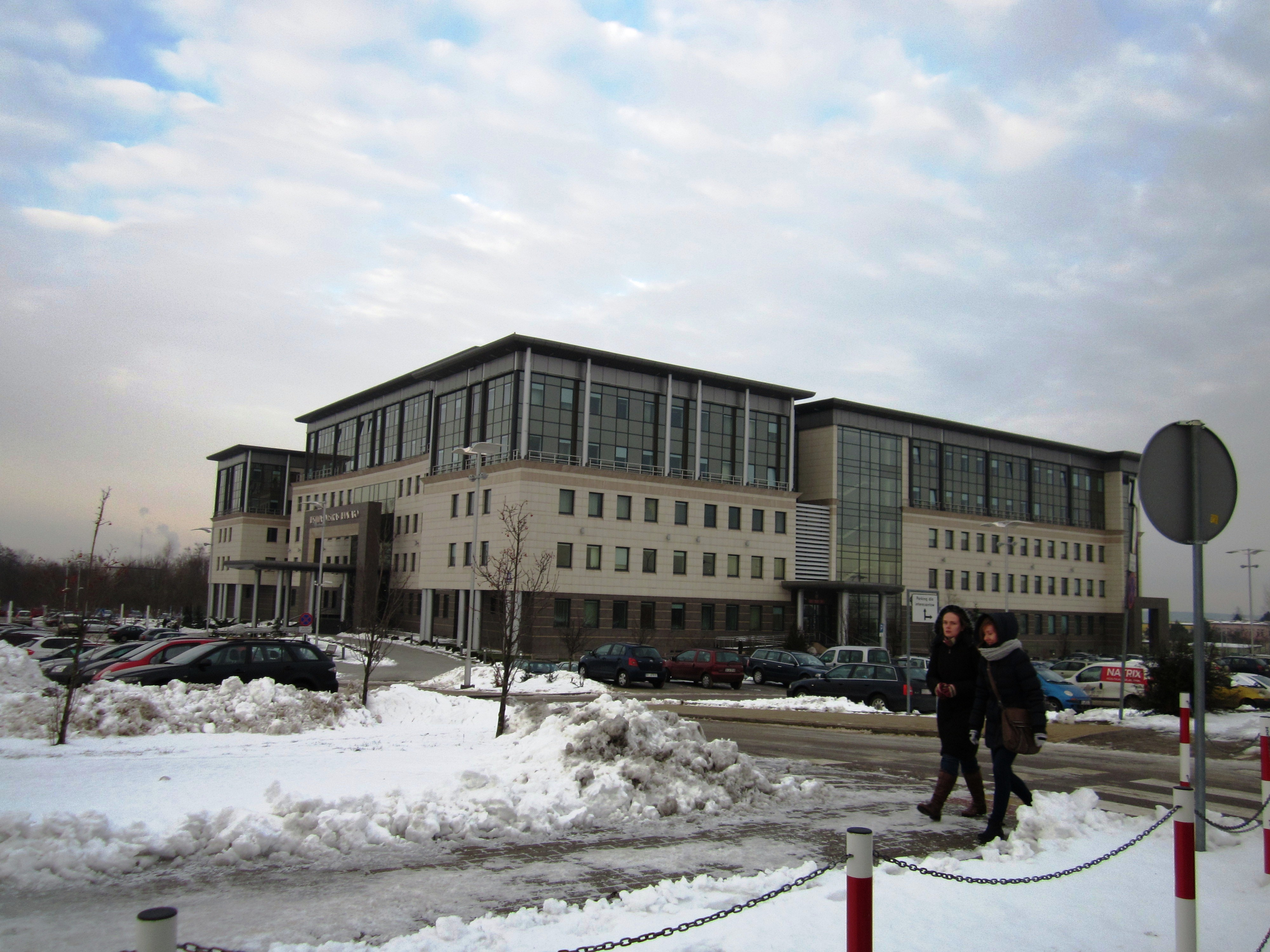 District Court in Białystok, 103 Mickiewicza